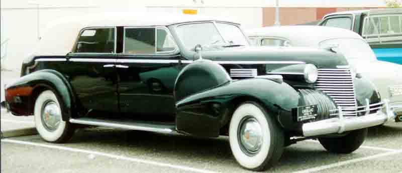 Cadillac Series 75 Convertible Sedan 1940